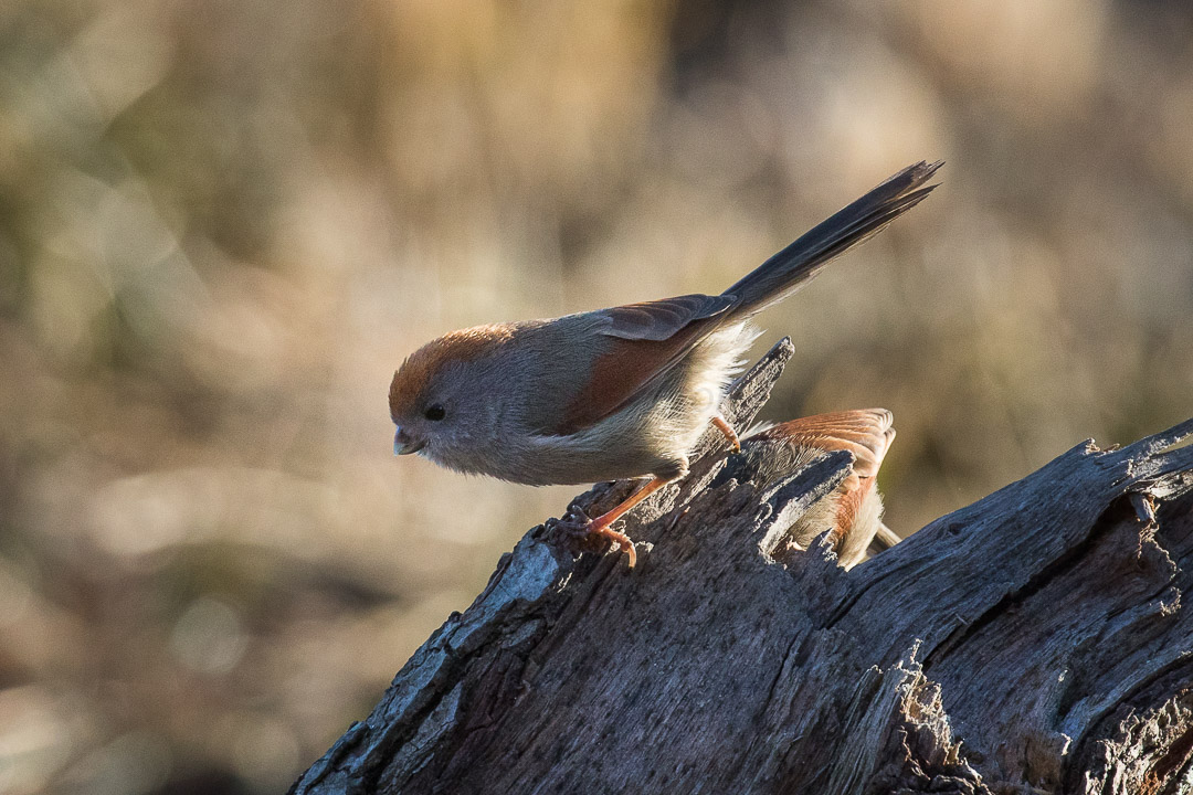 Vinous-throated Parrotbill - Brabbia Reserve - ItalyFJ0A8984